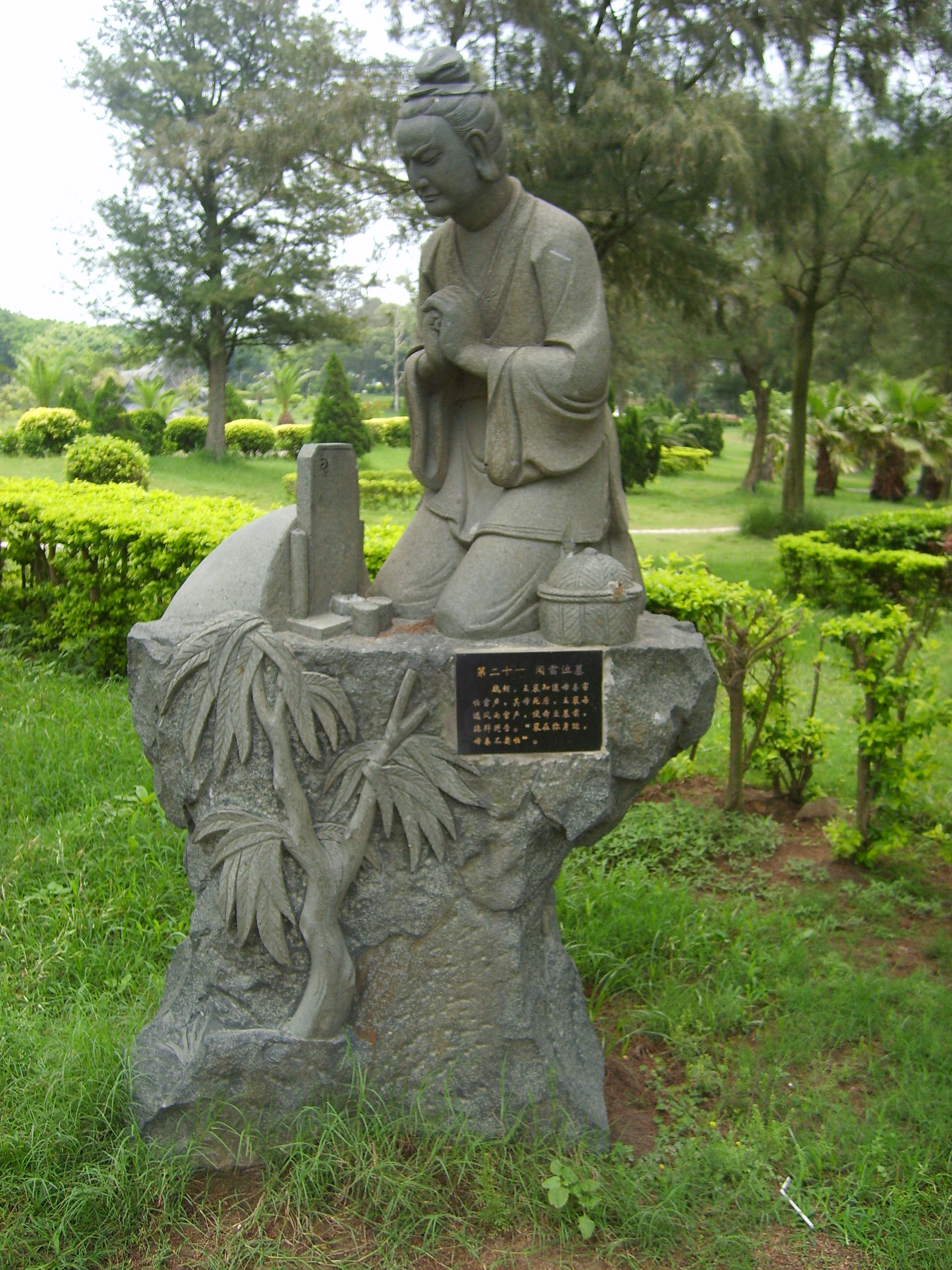 The Twenty-four Filial Exemplars - No. 21